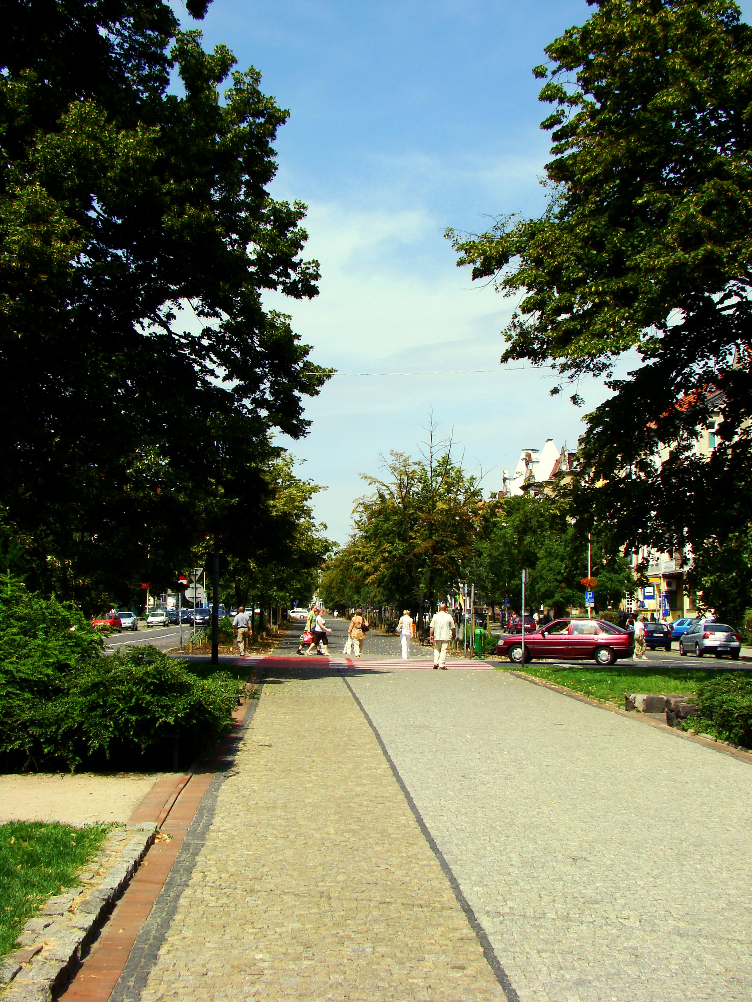 Grunwaldzki Square, Szczecin, Poland